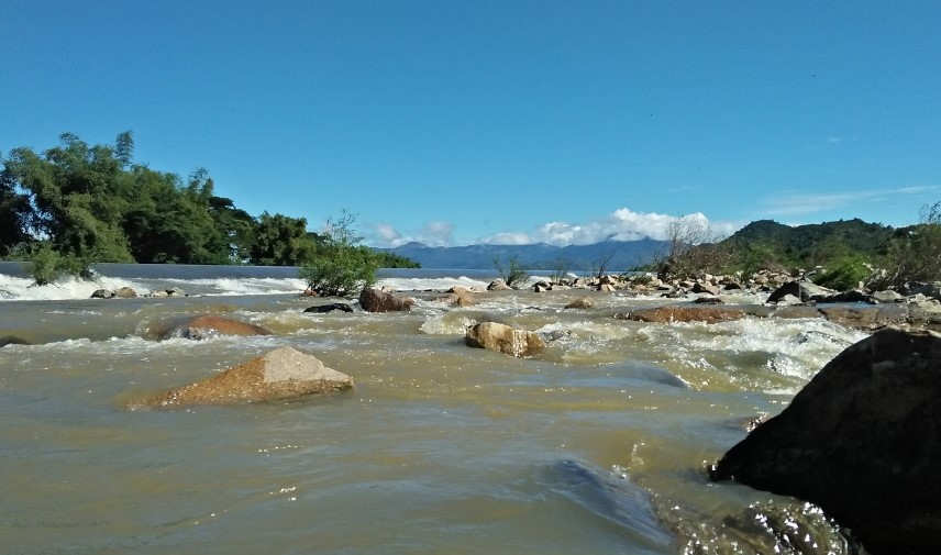 Đập Nha Trinh 3